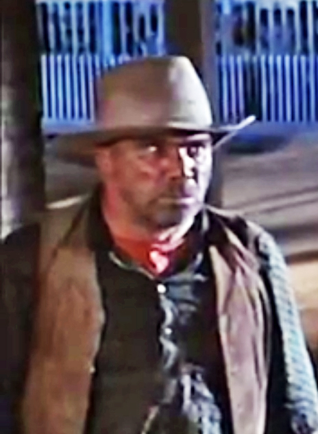 John Doucette in trailer for "7 Faces of Dr. Lao" (1964)